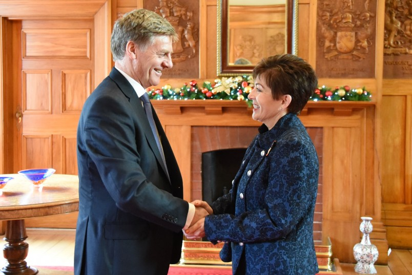 Dame Patsy Reddy greeting incoming PM Bill English at Government House